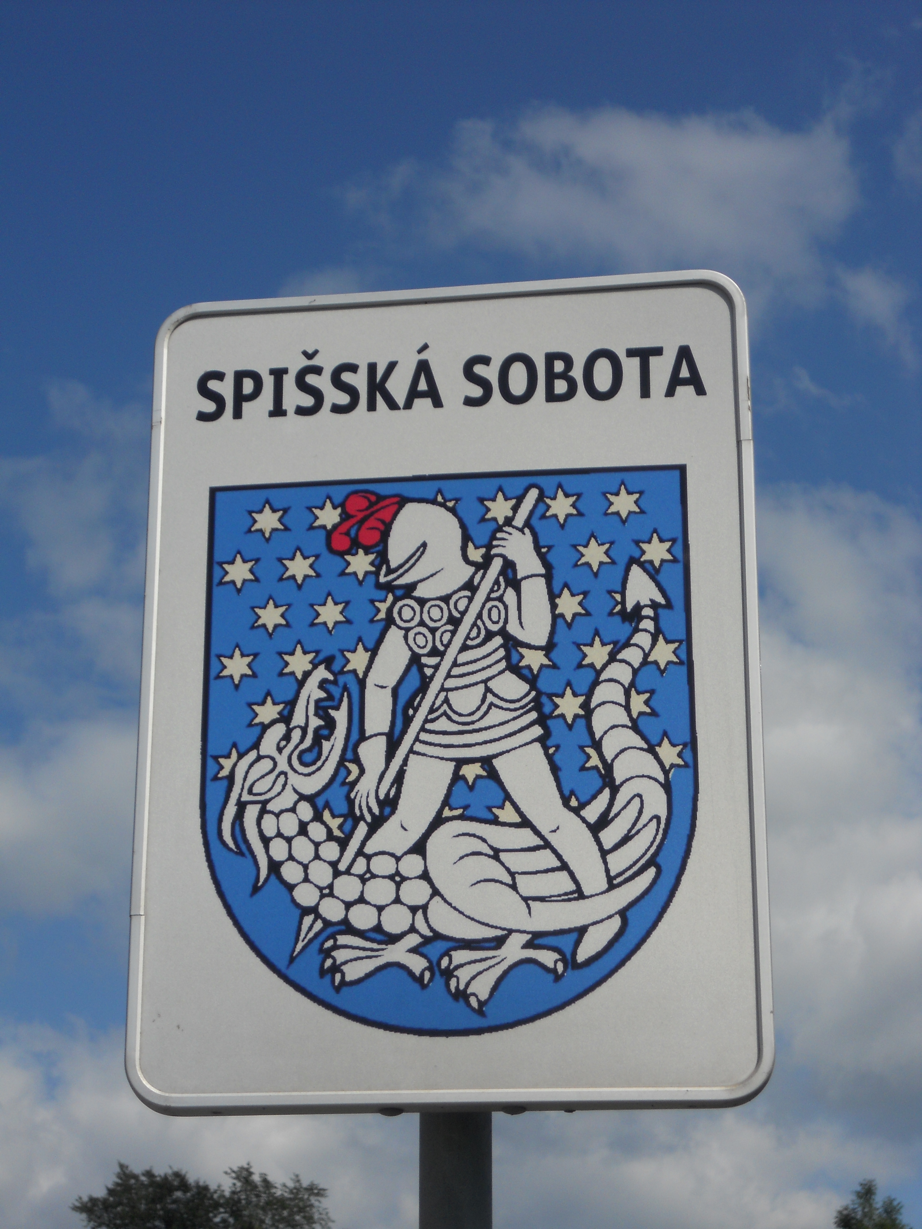 Coat of arms of Spišská Sobota on a street sign.